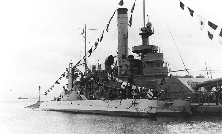 Photo # NH 92168 Submarines H-2 and H-1 alongside USS Cheyenne USS Cheyenne (Monitor # 10) In a West Coast port prior to World War I, while serving as a submarine tender. USS H-2 (Submarine # 29) and USS H-1 (Submarine # 28) are tied up alongside. All three ships are dressed with flags, probably for a holiday.